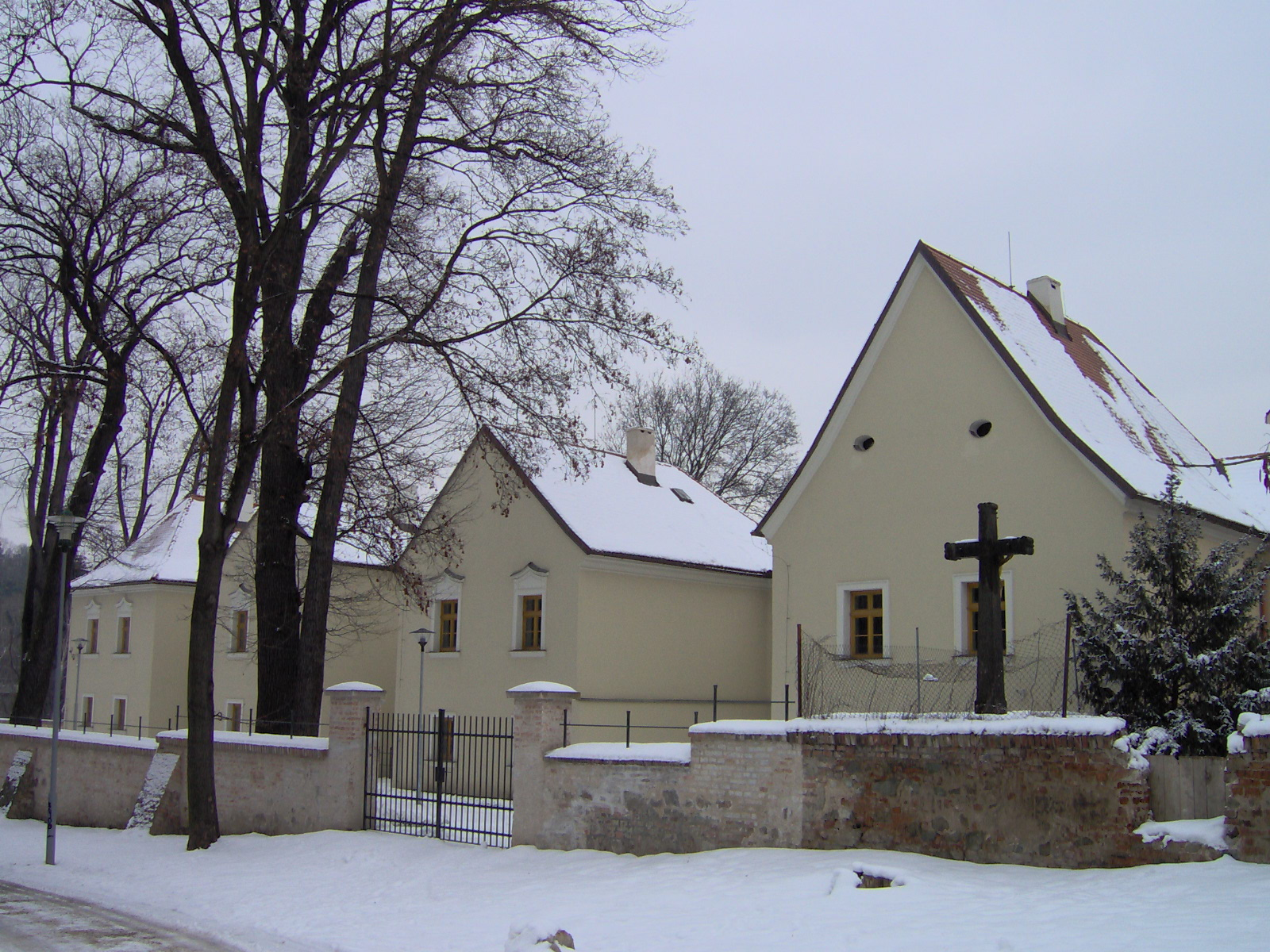 Former monastery of Carthusians, Brno, Czech Republic